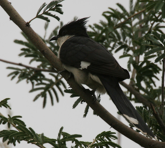 Pied Cuckoo, Pied Crested Cuckoo, or Jacobin Cuckoo Clamator jacobinus - Hindi: Papiya, Kala papiya, Chatak, Kash: Hor kuk, Pun: Barsati papiha, Ben: Kala bulbul, Shah bulbul, Guj: Chatak, Mothido Mar: Chatak, Ta: Konda kuyil, Te: Gola kokila, Mal: Erattathalachi kuyil, Sinh: Konda koha - in Hyderabad, India.